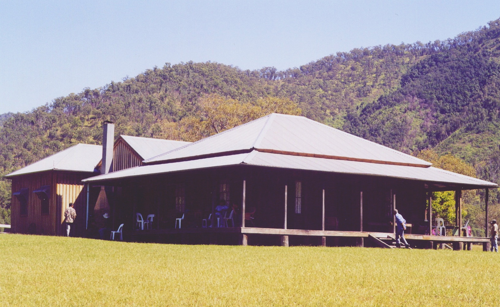 The rare red cedar East Kunderang homestead, NSW.